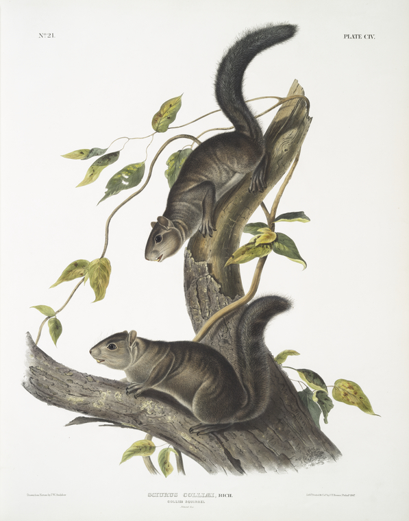 Sciurus colliaei, Collie's Squirrel. Drawn for John James Audubon's book The viviparous quadrupeds of North America.